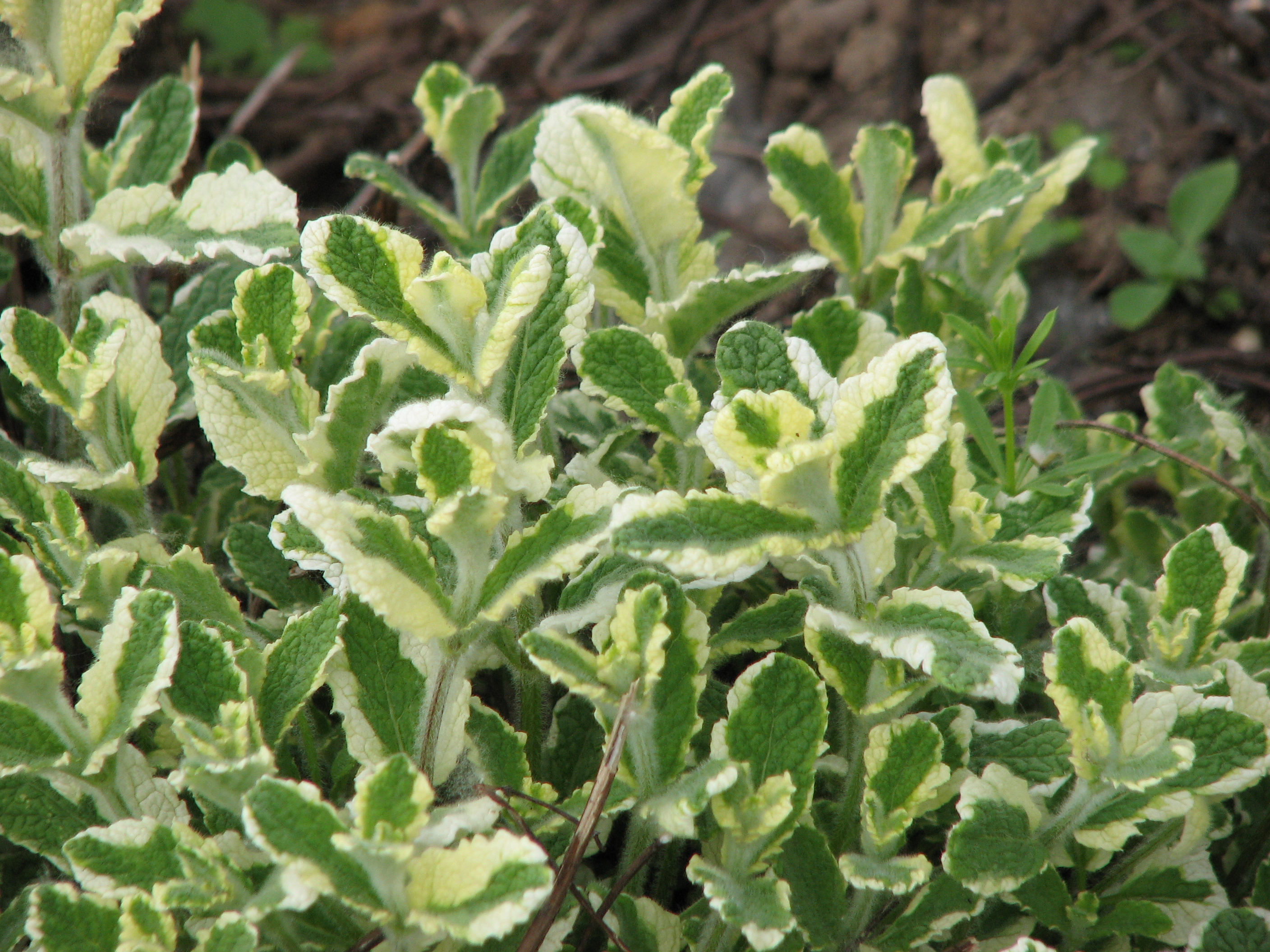 Mentha suaveolens 'Variegata'. From the collection of the Main Botanical Garden of Academy of Sciences in Moscow (perennials plot).